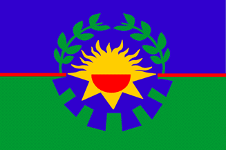 Flag of the Buenos Aires Province from de.wiki